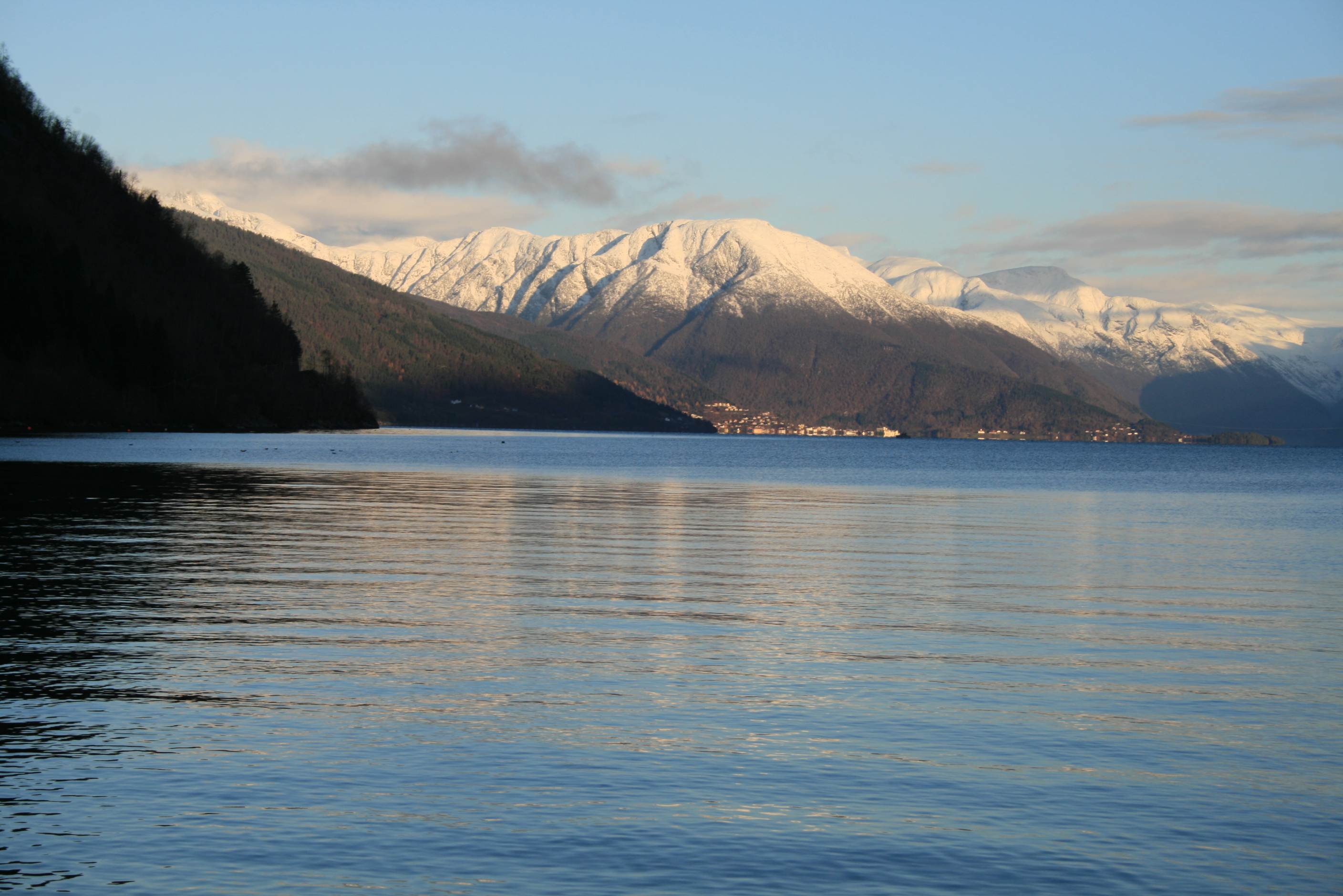 Sognefjord as seen from the town of Vik.